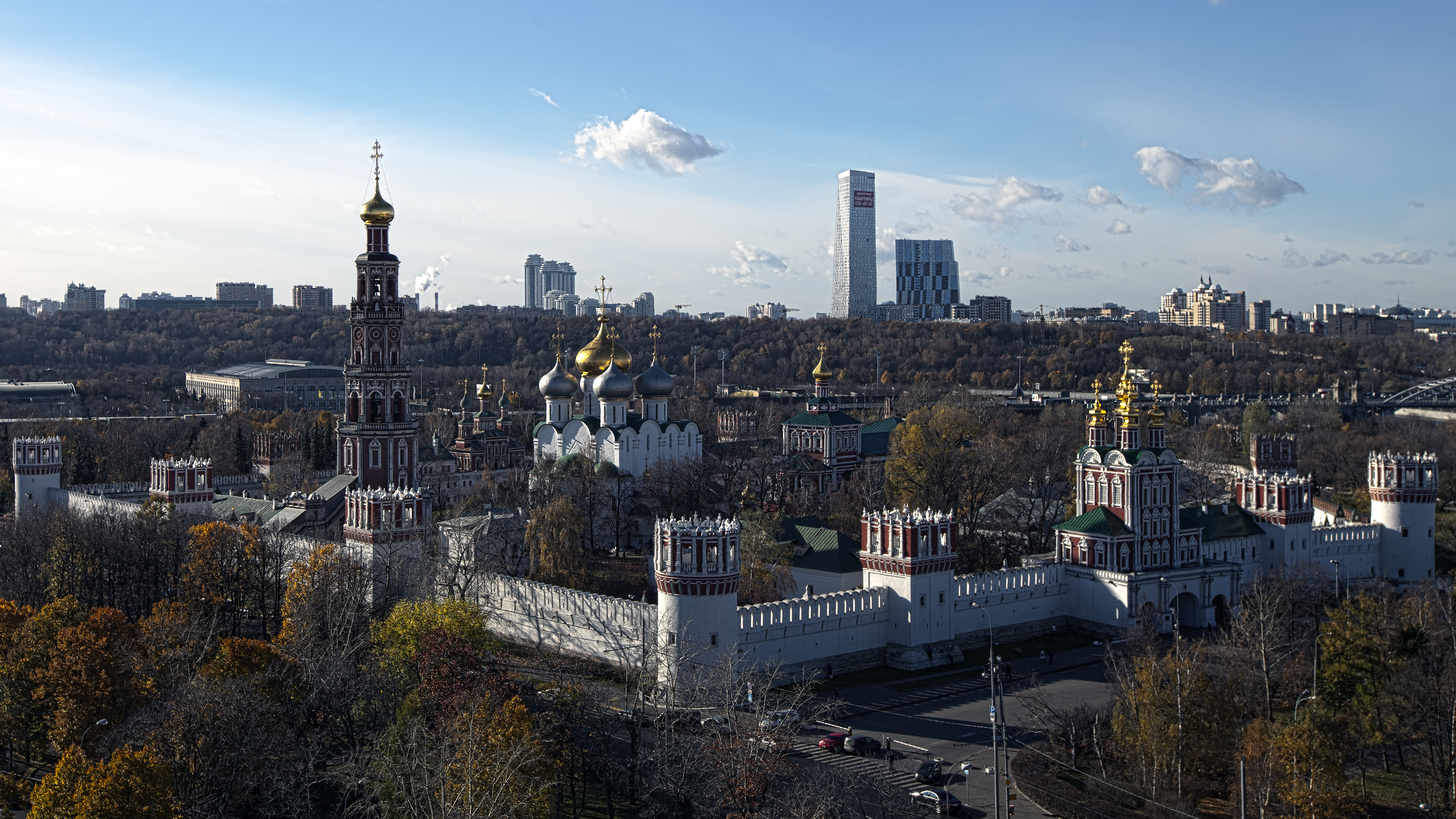 Novodevichy Convent in Moscow, Russian Federation